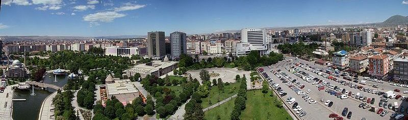 Panorama of Kayseri